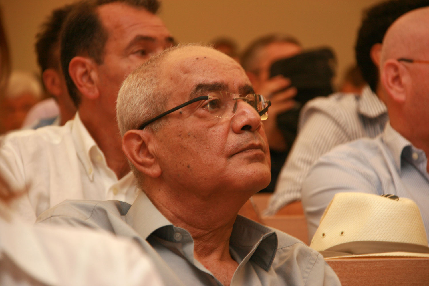 Dan Halutz, an Israeli Air Force Lt. General and former Chief of Staff of the Israel Defense Forces and commander of the Israeli Air Force.